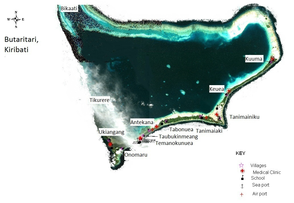 Astronaut photo of Butaritari, Kiribati, with villages and main landmarks